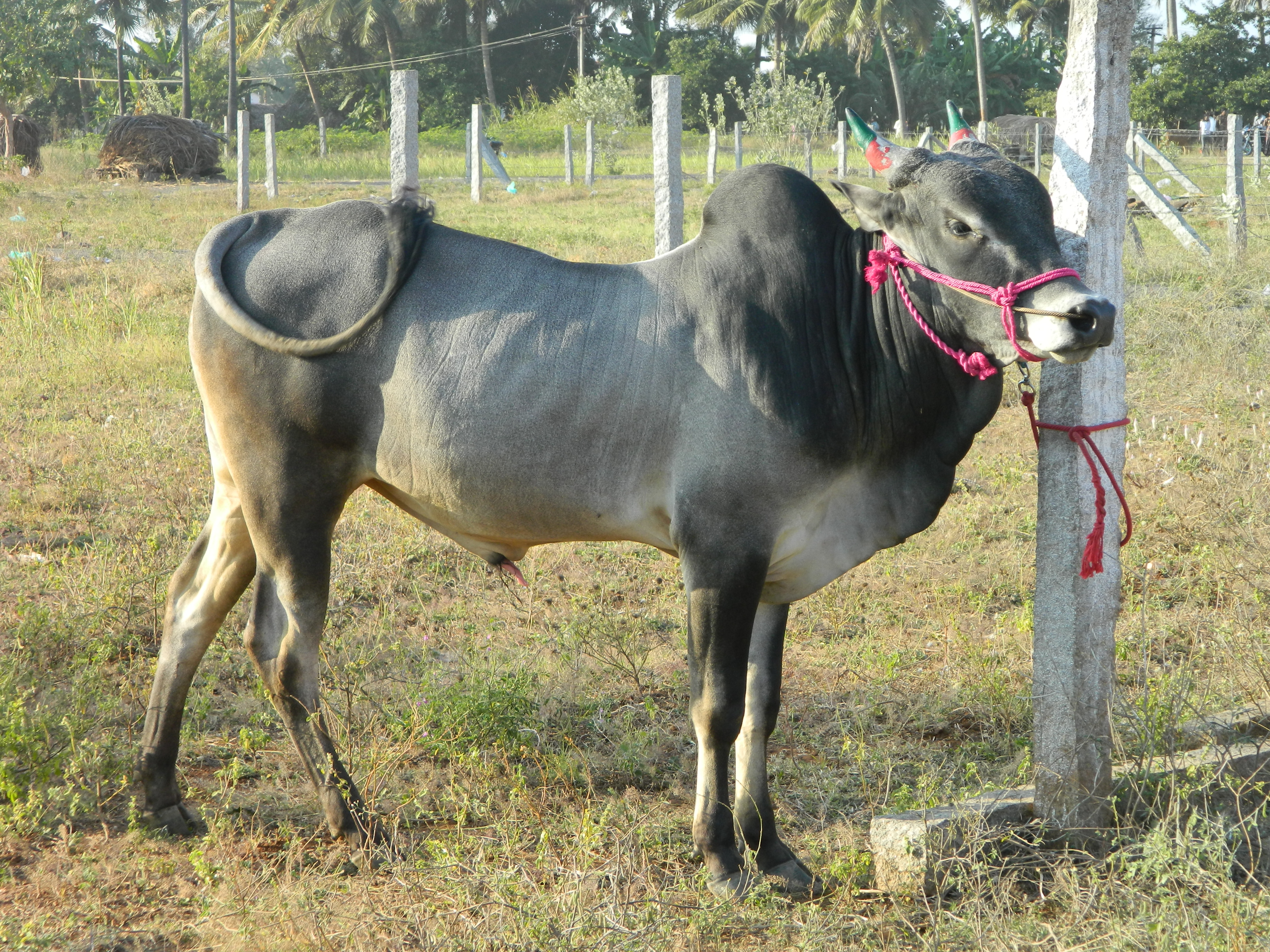 A aesthetic bull